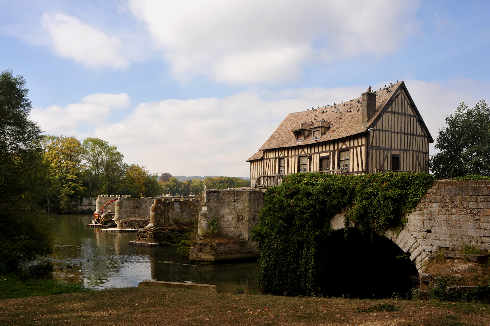 Pont Vieux over the Seine river in Vernon; Eure, France.